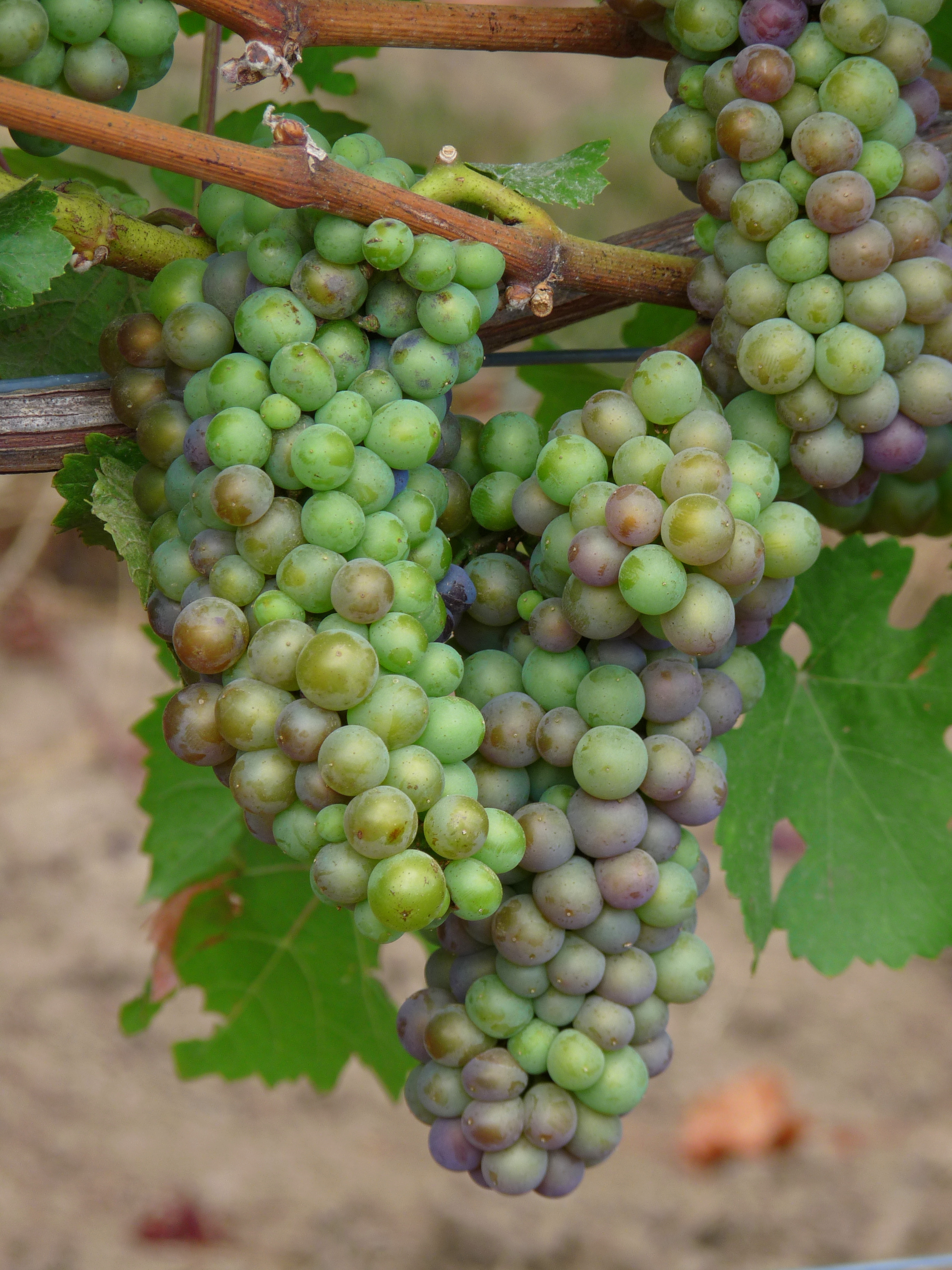 Early stages of veraison of Pinot noir in late August in the Eola-Amity Hills area of Oregon.